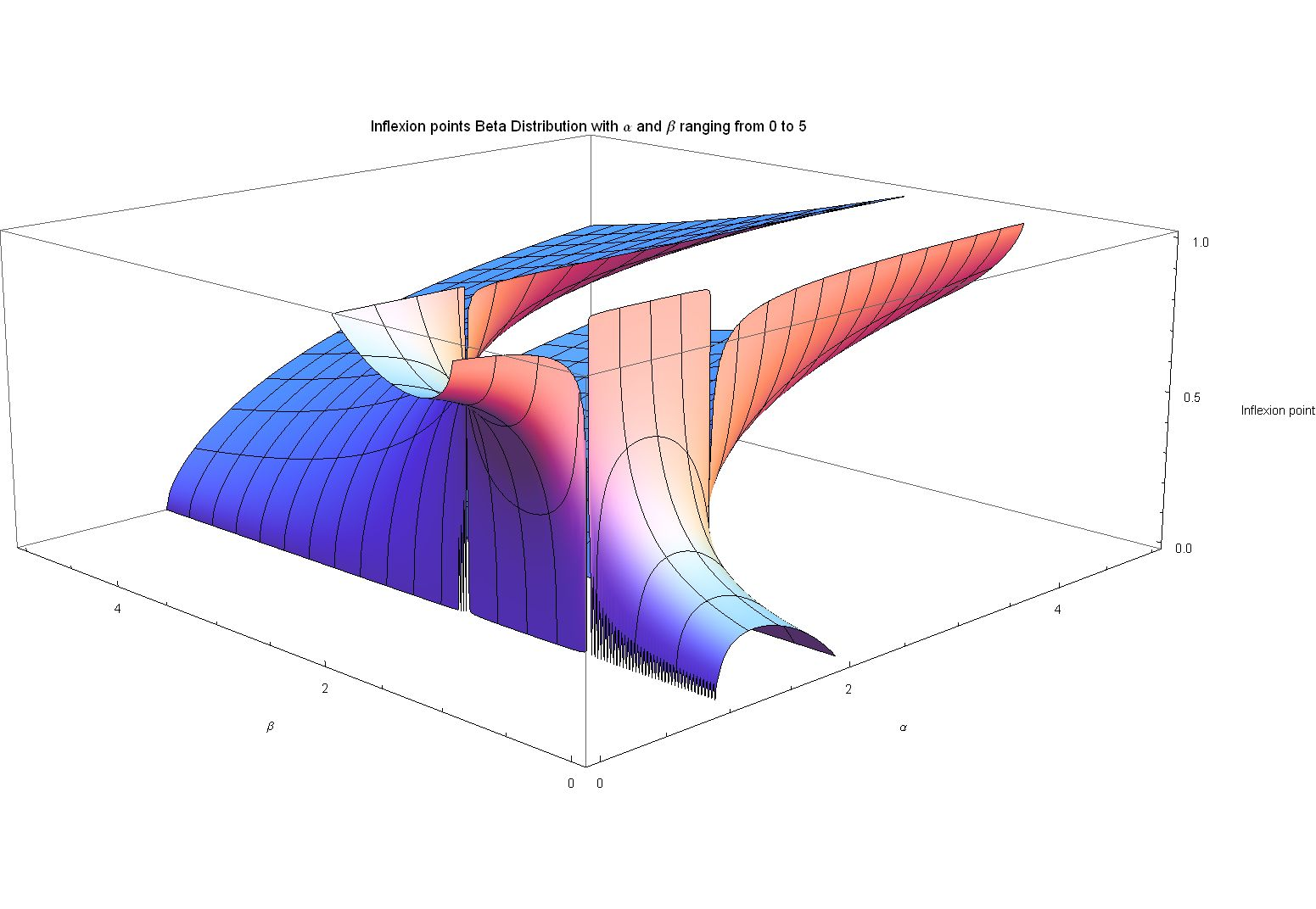 Inflexion points Beta Distribution alpha and beta ranging from 0 to 5 large ptl view - J. Rodal